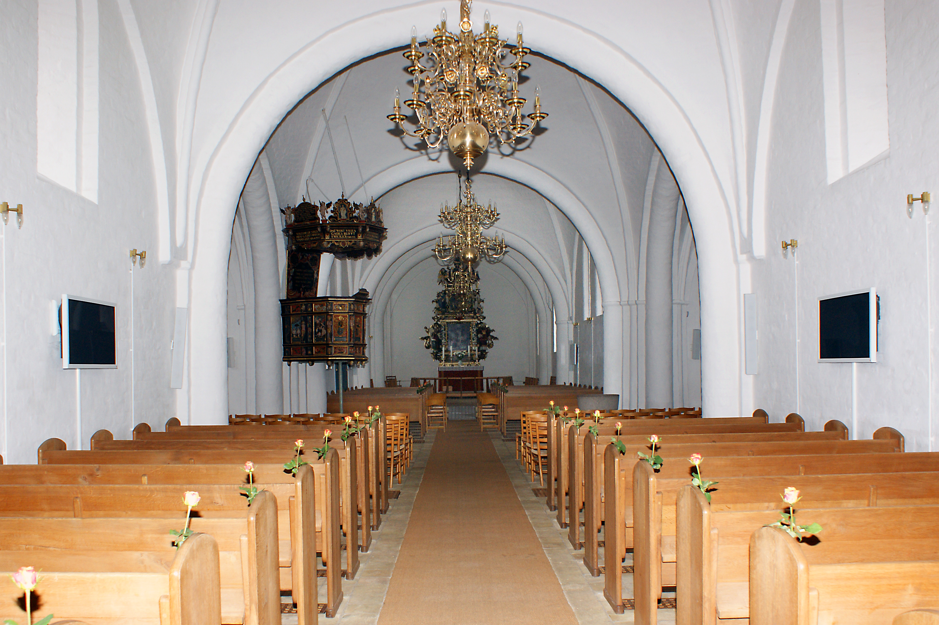 Sct. Nicolai Church Åbenrå, Denmark